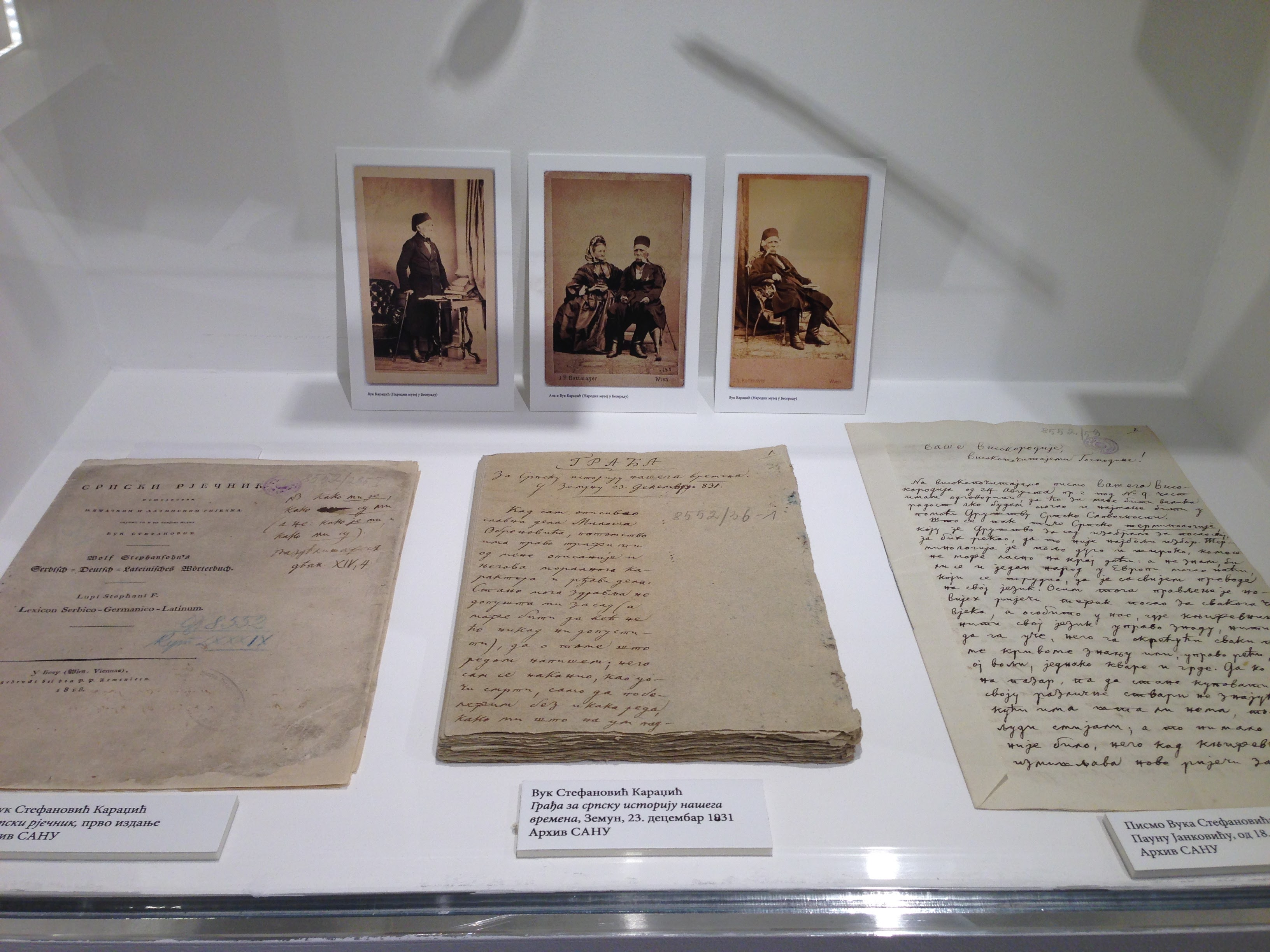 Archive of the Serbian Academy of Sciences and Art in Belgrade.